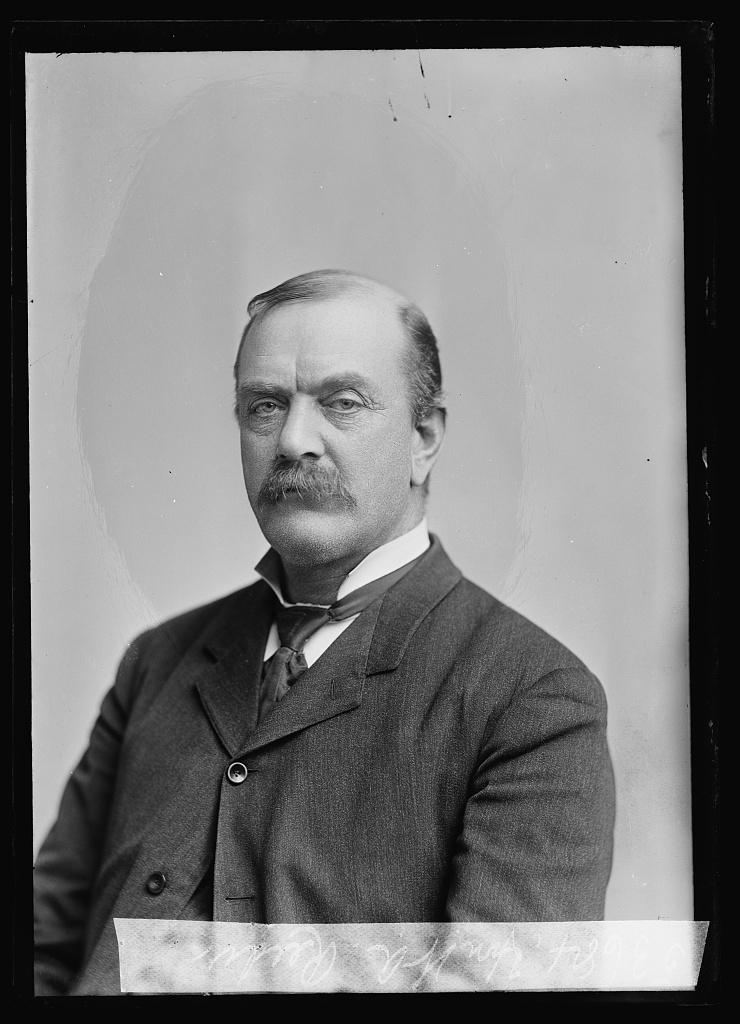 William Augustus Reeder photographed by CM Bell studio